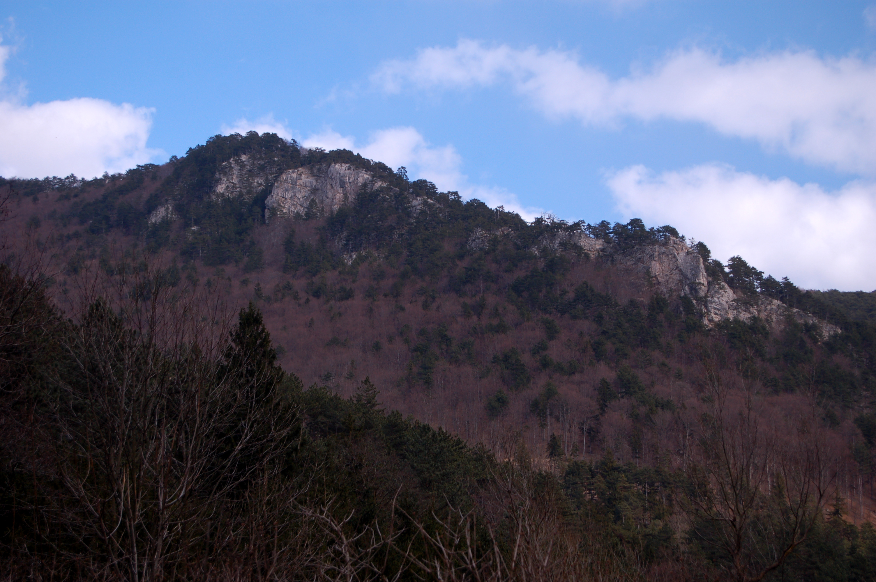 Süßwände, a rock wall on the south side of the mountain Hohe Mandling, as seen from the Piesting valley (location Quarb)